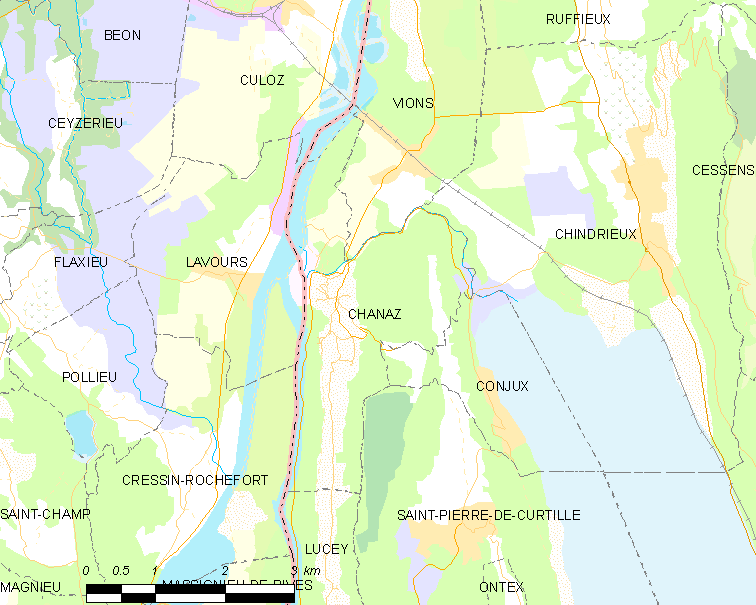 Map of French municipality